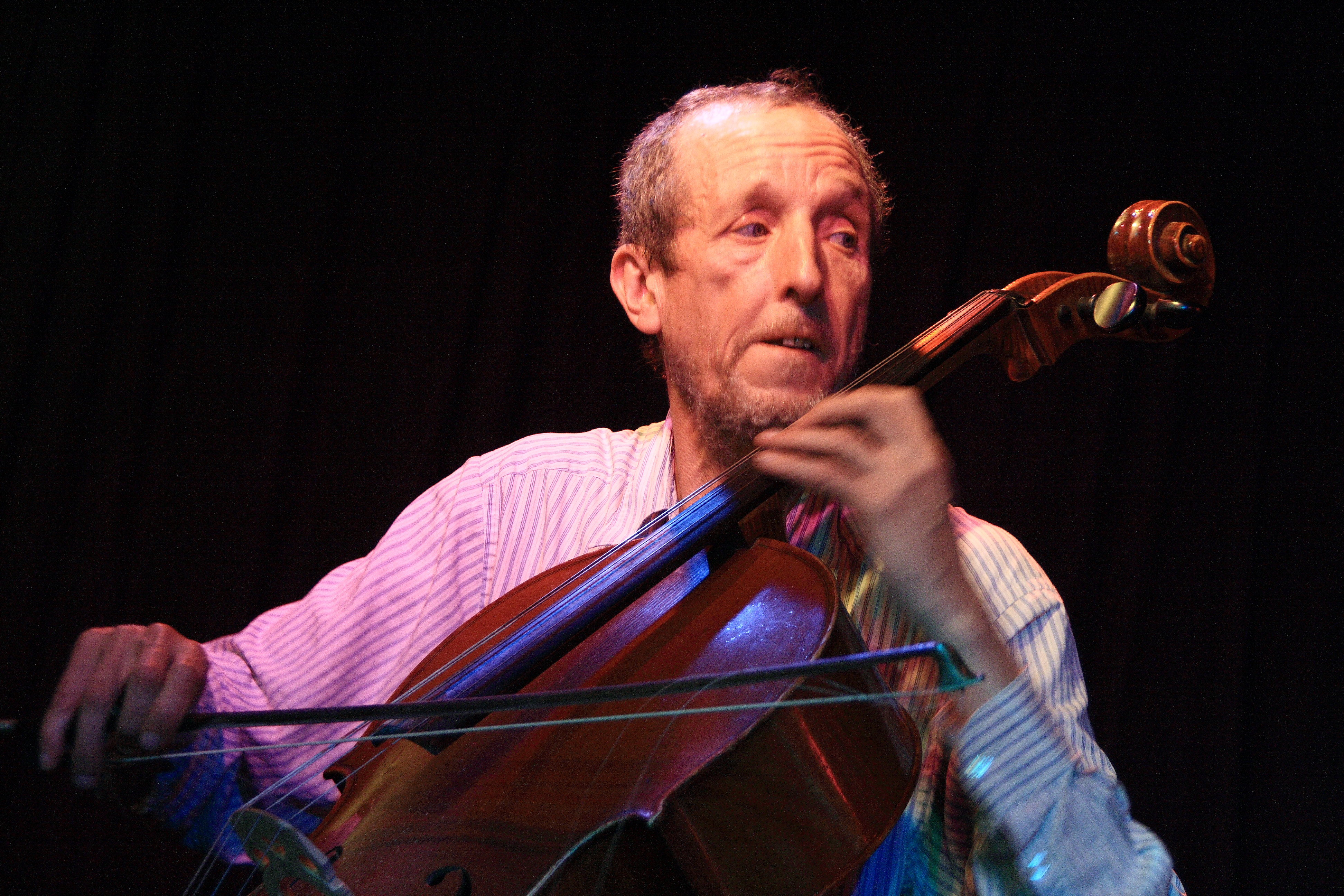 Tristan Honsinger in concert at Club W71, Weikersheim.